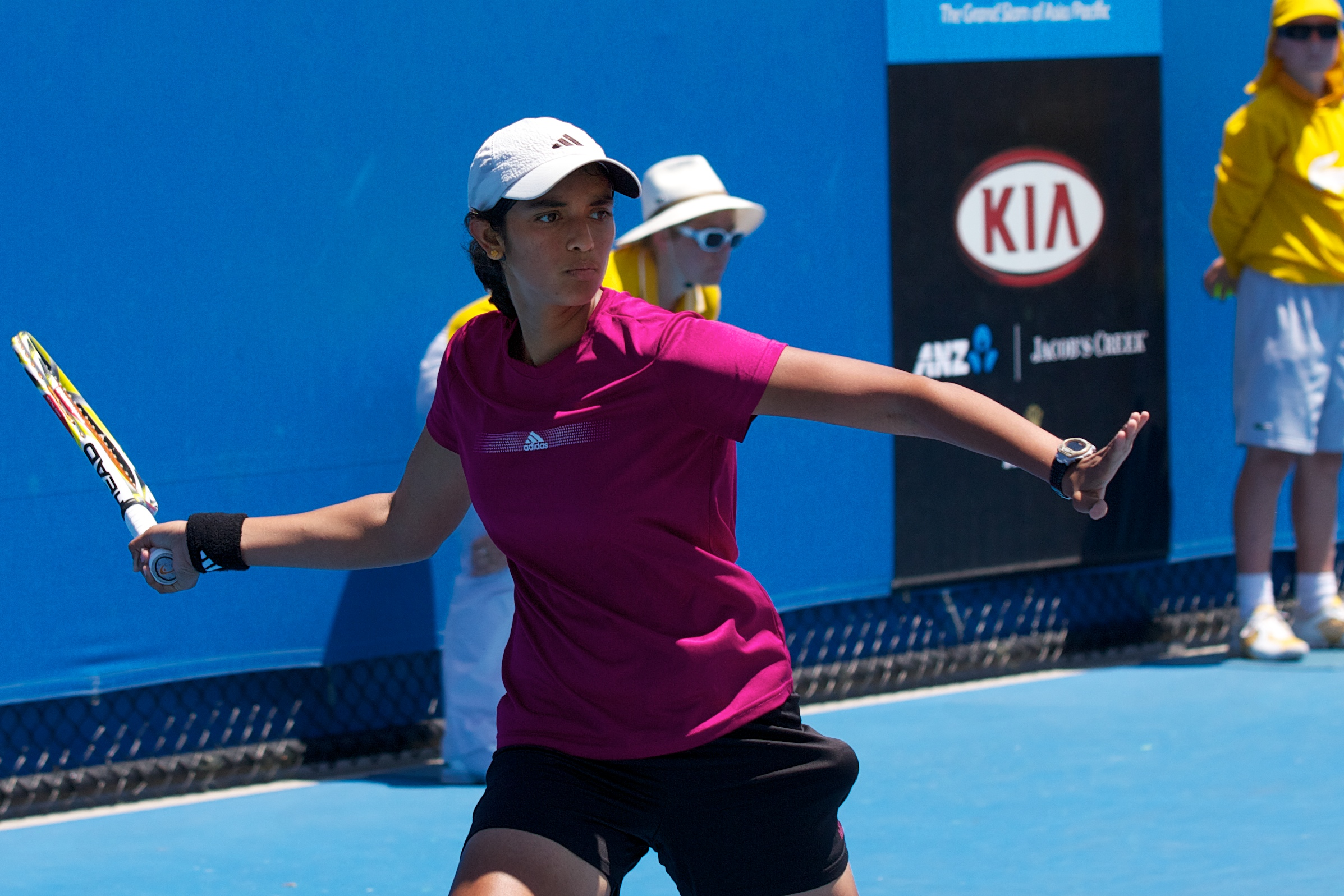 Indian Rishika Sunkara competing at the 2011 Australian Open in the Junior Girls' Singles division.